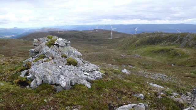 Meall Dubh Small outcrop of rock near the summit of Meall Dubh.